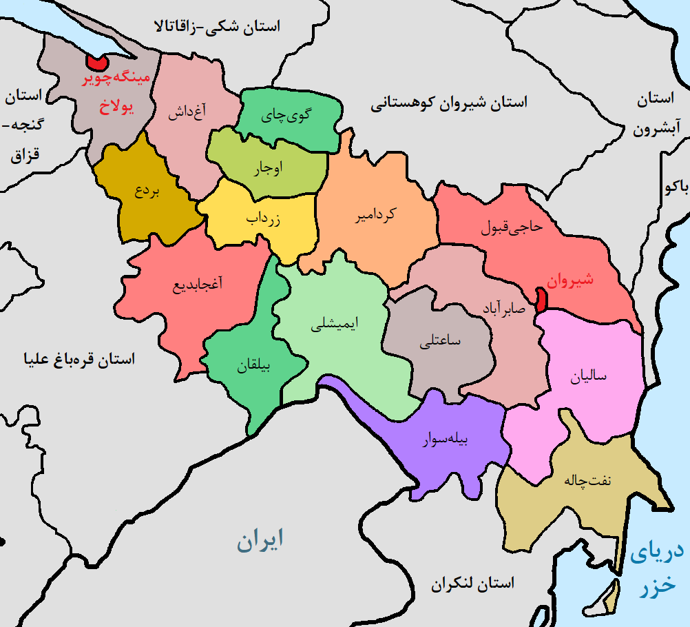 Aran Region